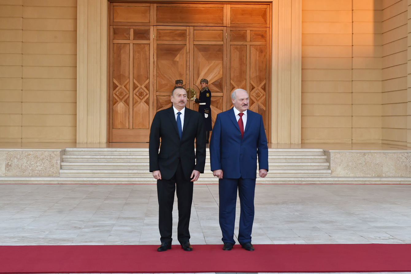 Official meeting ceremony of President of Belarus Alexander Luкashenкo was held